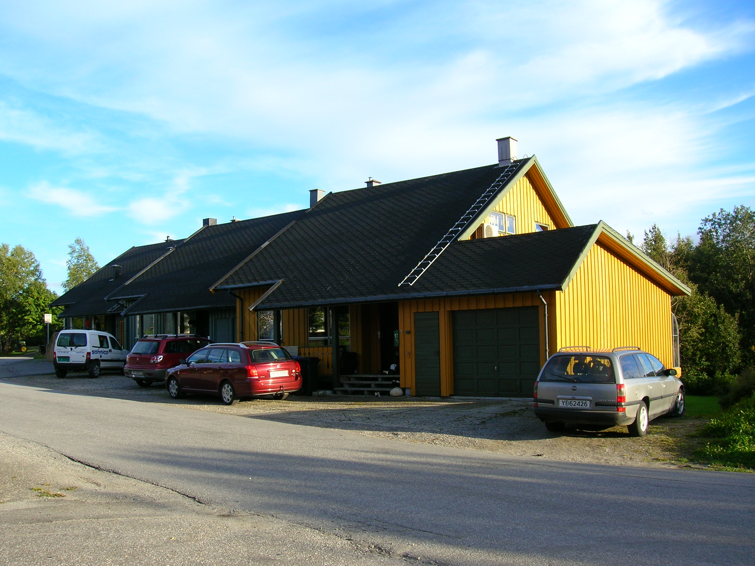 Sportsalleen housing cooperative on Selfors, north of Mo i Rana, Rana municipality, county of Nordland, Norway, Photo 4 September, 2007 with a Nikon Coolpix 5600 5,1 Megapixel camera.